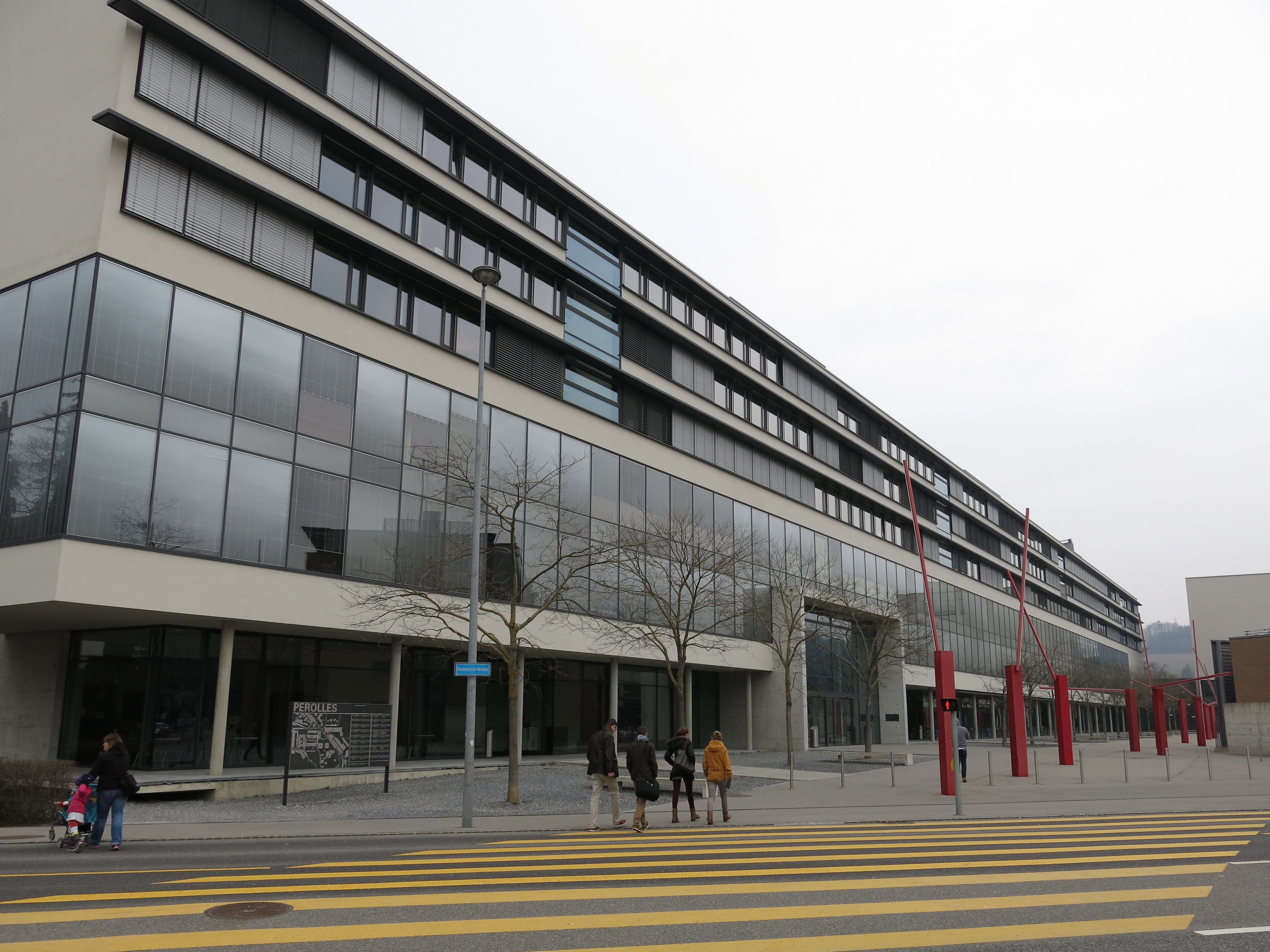 Fribourg, Switzerland